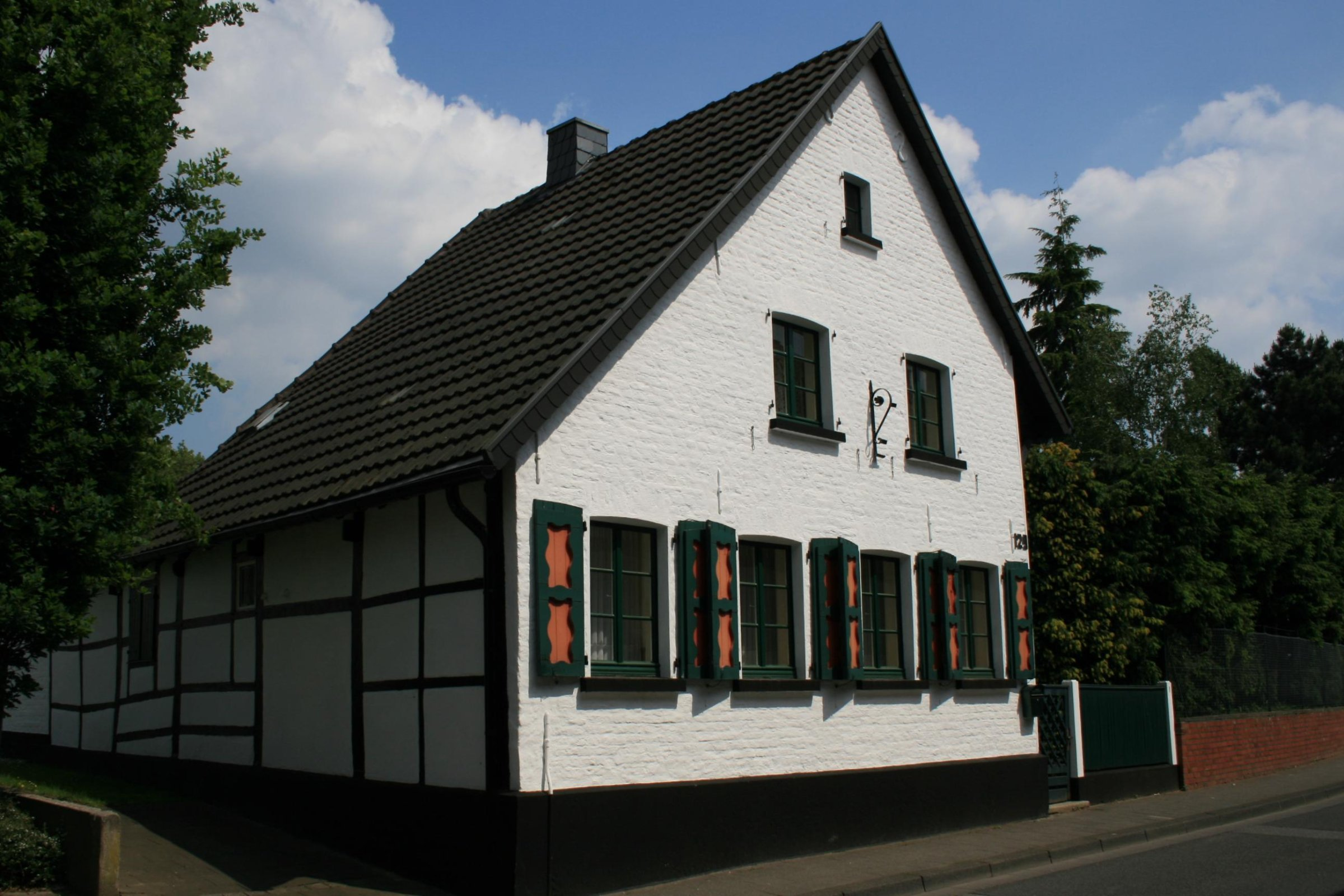 Cultural heritage monument No. Sch 030 in Mönchengladbach